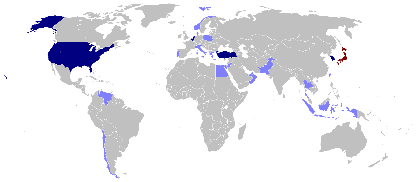 Users and manufacturers of the F-16 Fighting Falcon: Nations which have manufactured the F-16. Users of the F-16. Nations which have manufactured derivatives of the F-16 (Japan).